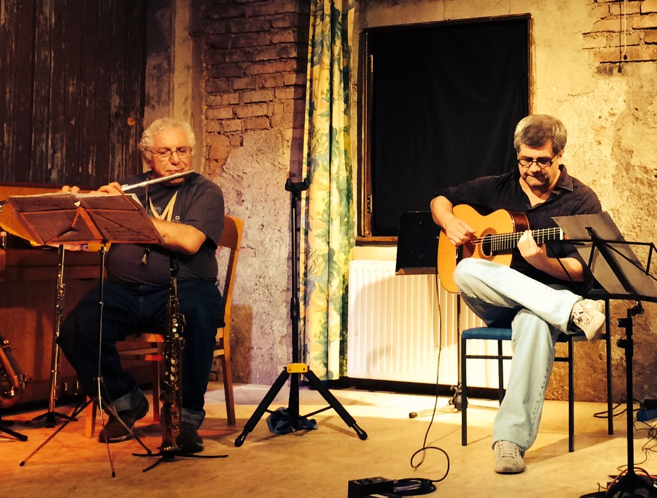 GASTMAHL mit Roger Jannotta, Marcos Davi und Thorsten Klentze 3